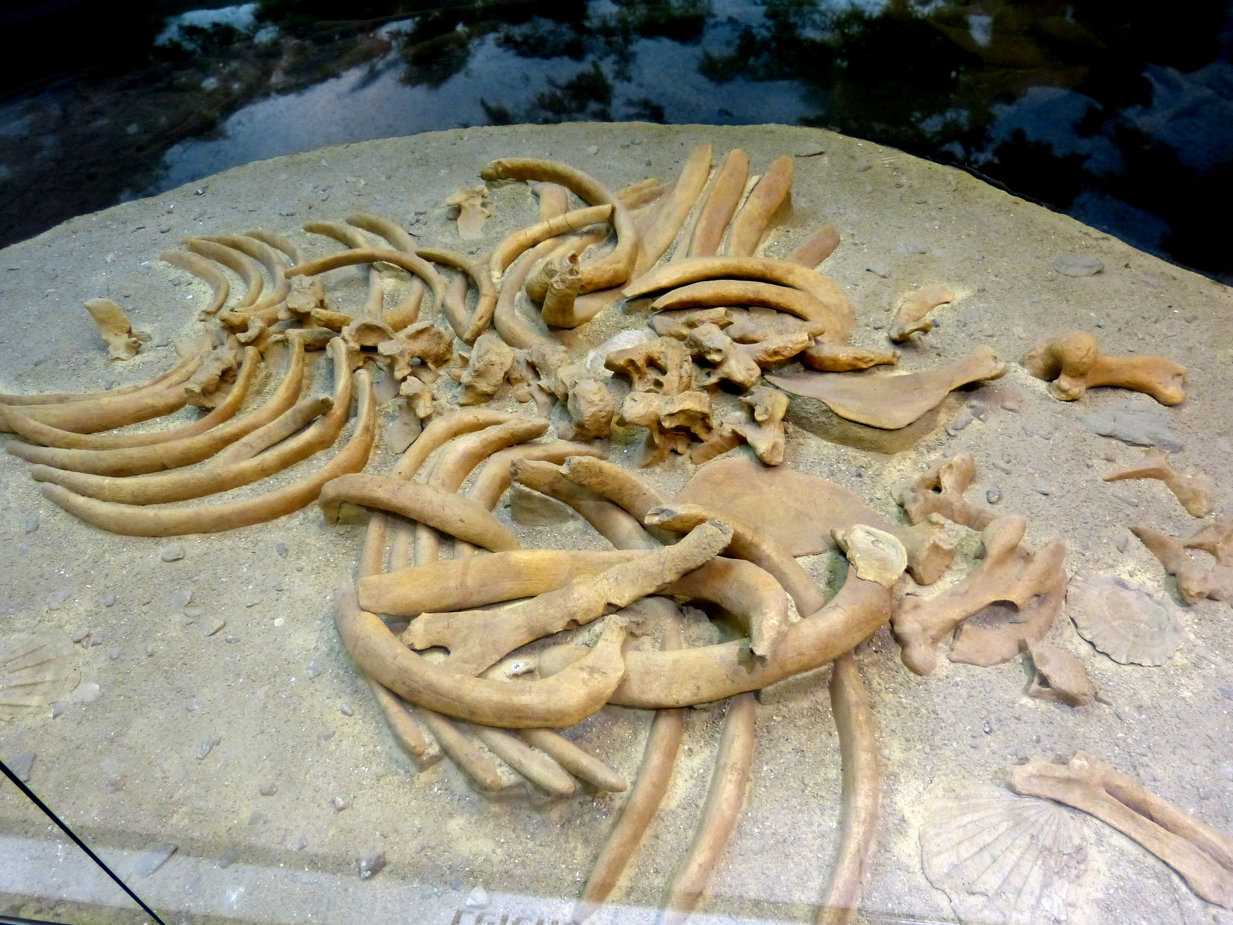 Eggenburg ( Lower Austria ). Krahuletz-Museum: Fossil bones of Metaxytherium krahuletzi from Kühnring.